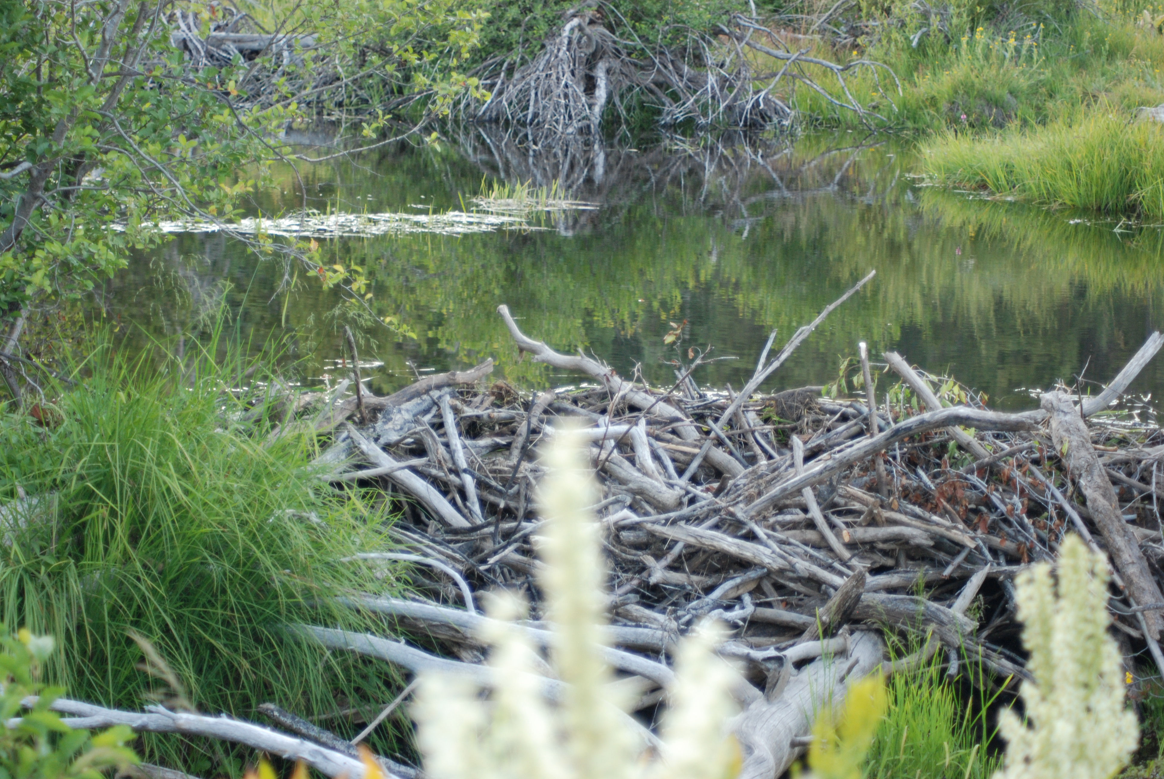 Beaver dam and pond on Meeks Creek just west of Hwy 89